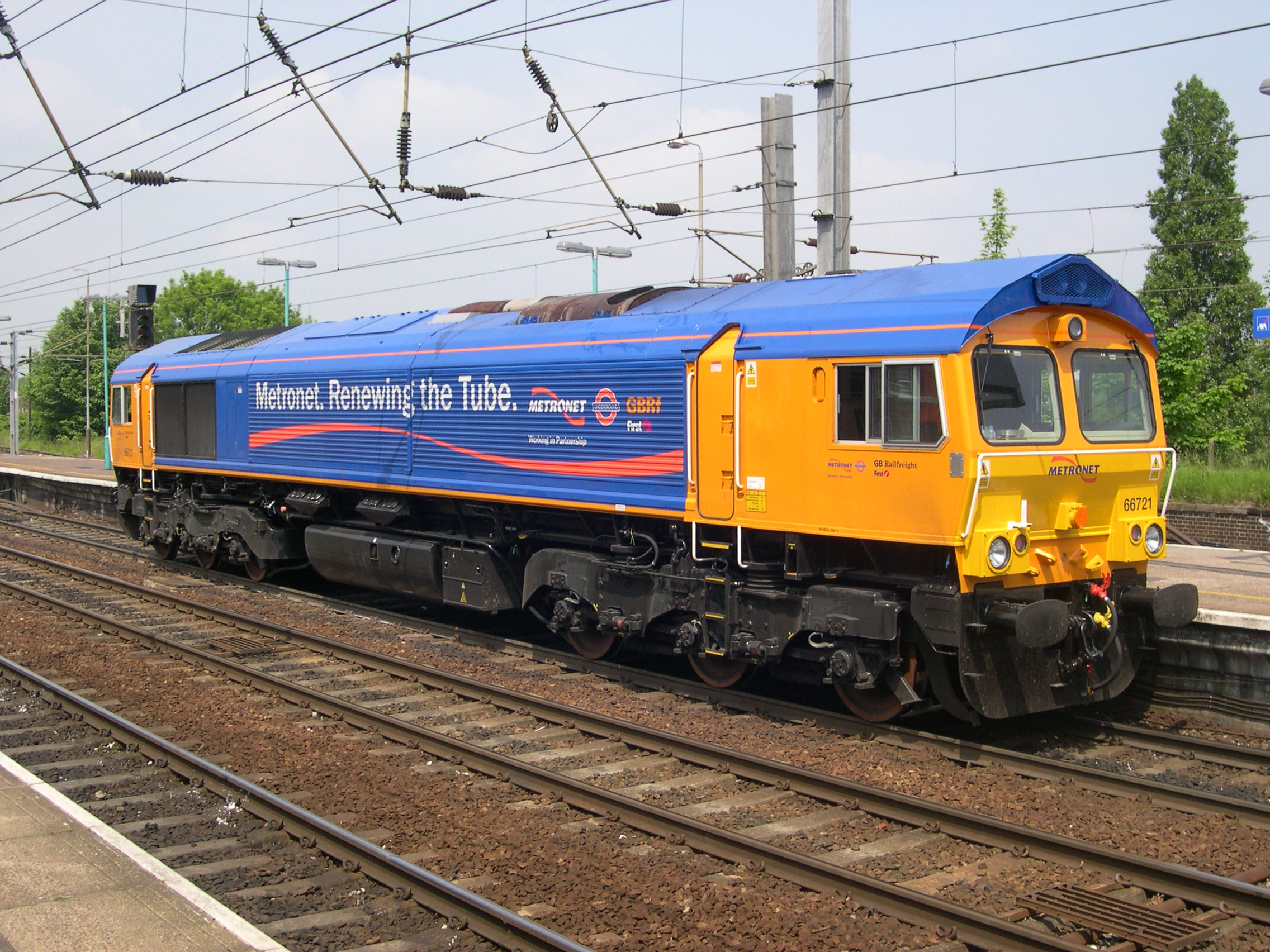 66721 wearing Metronet livery at Ipswich